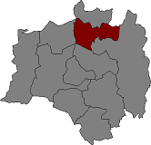 Location of Esponellà in Pla de l'Estany